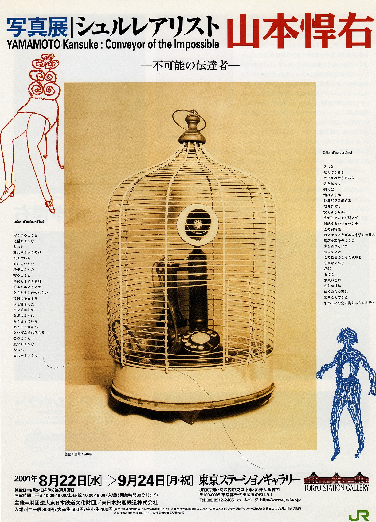 Exhibition Brochure, YAMAMOTO Kansuke exhibition flyer at Tokyo Station Gallery, 2001